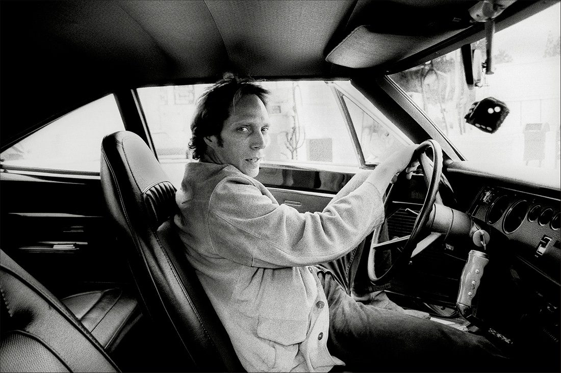 Photograph of actor William Fichtner. Author / Photographer: myself, Beth Herzhaft. Taken in Los Angeles c 2003.